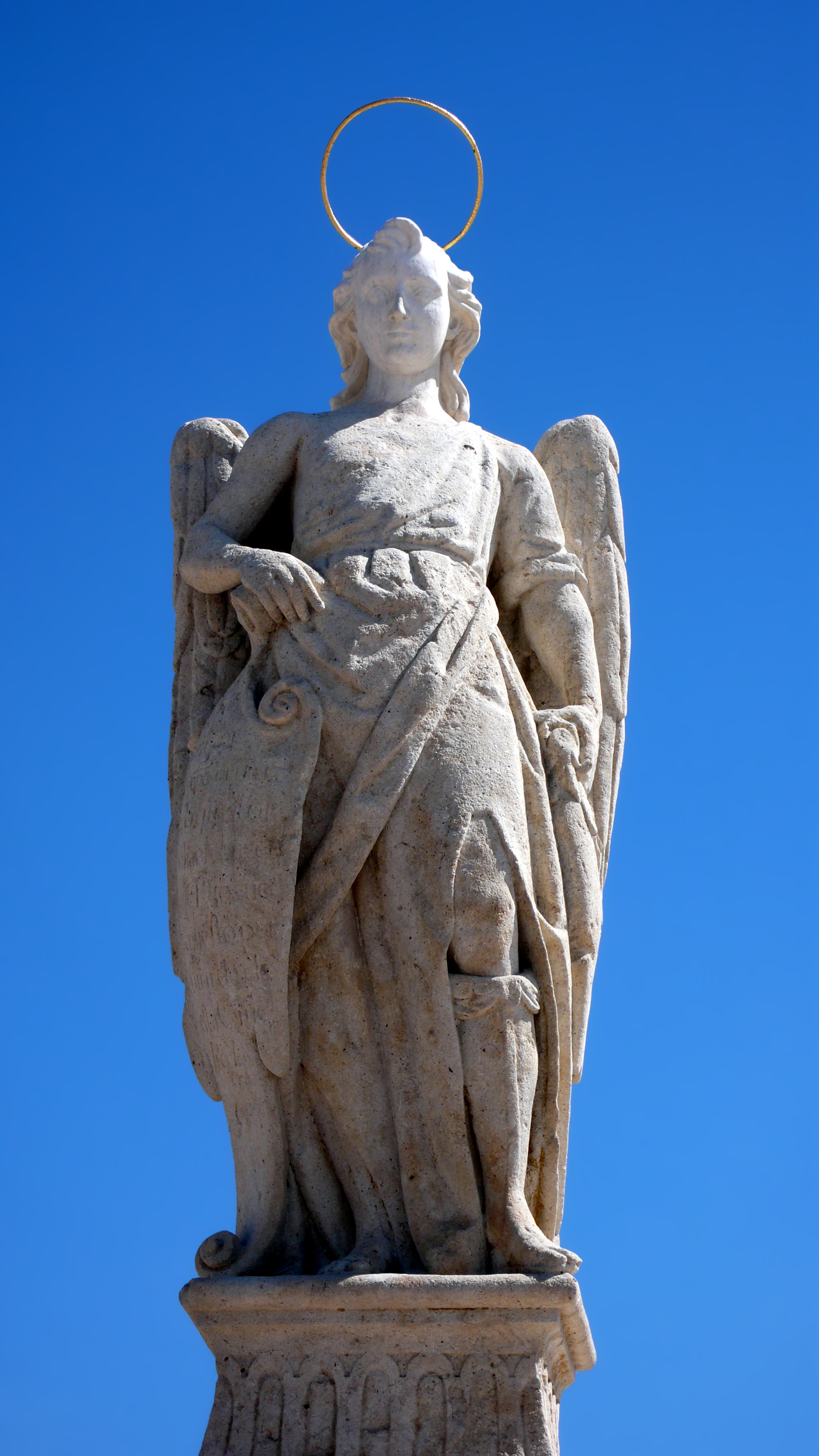 Statue of Saint Raphael by Bernabé Gómez del Río from 1651 on the Roman Bridge in Cordoba - Spain